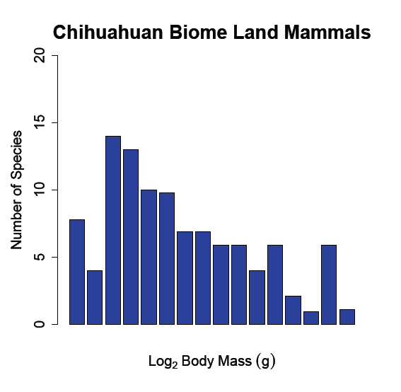 graph of chichuahuan land mammals by size class